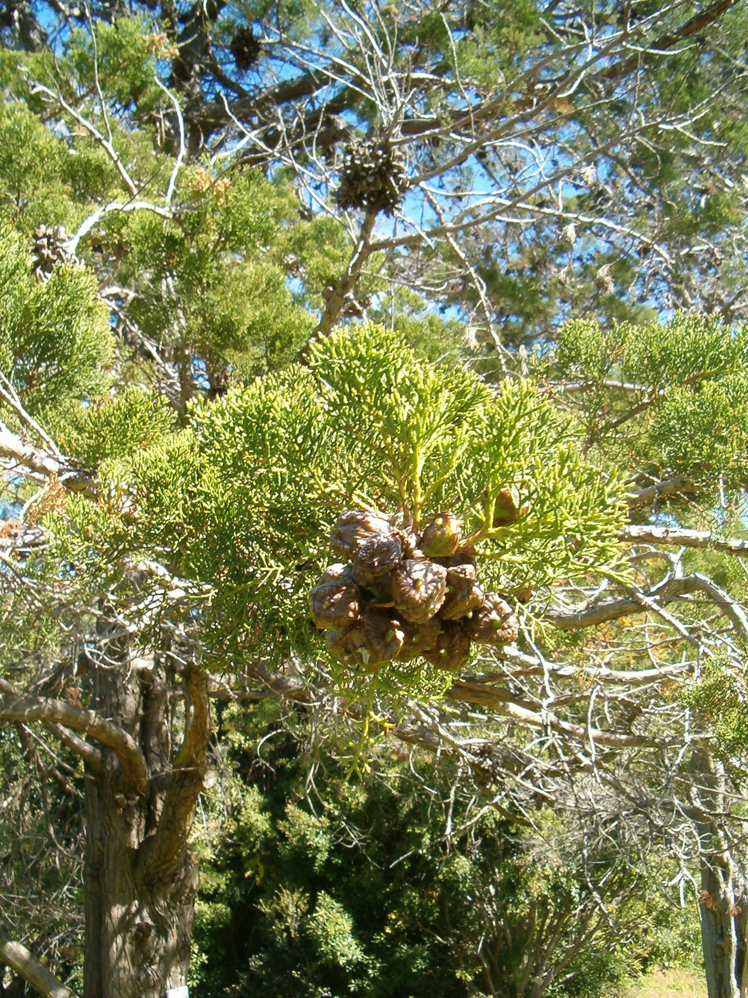 At Kirstenbosch National Botanical Gardens Species Widdringtonia nodiflora